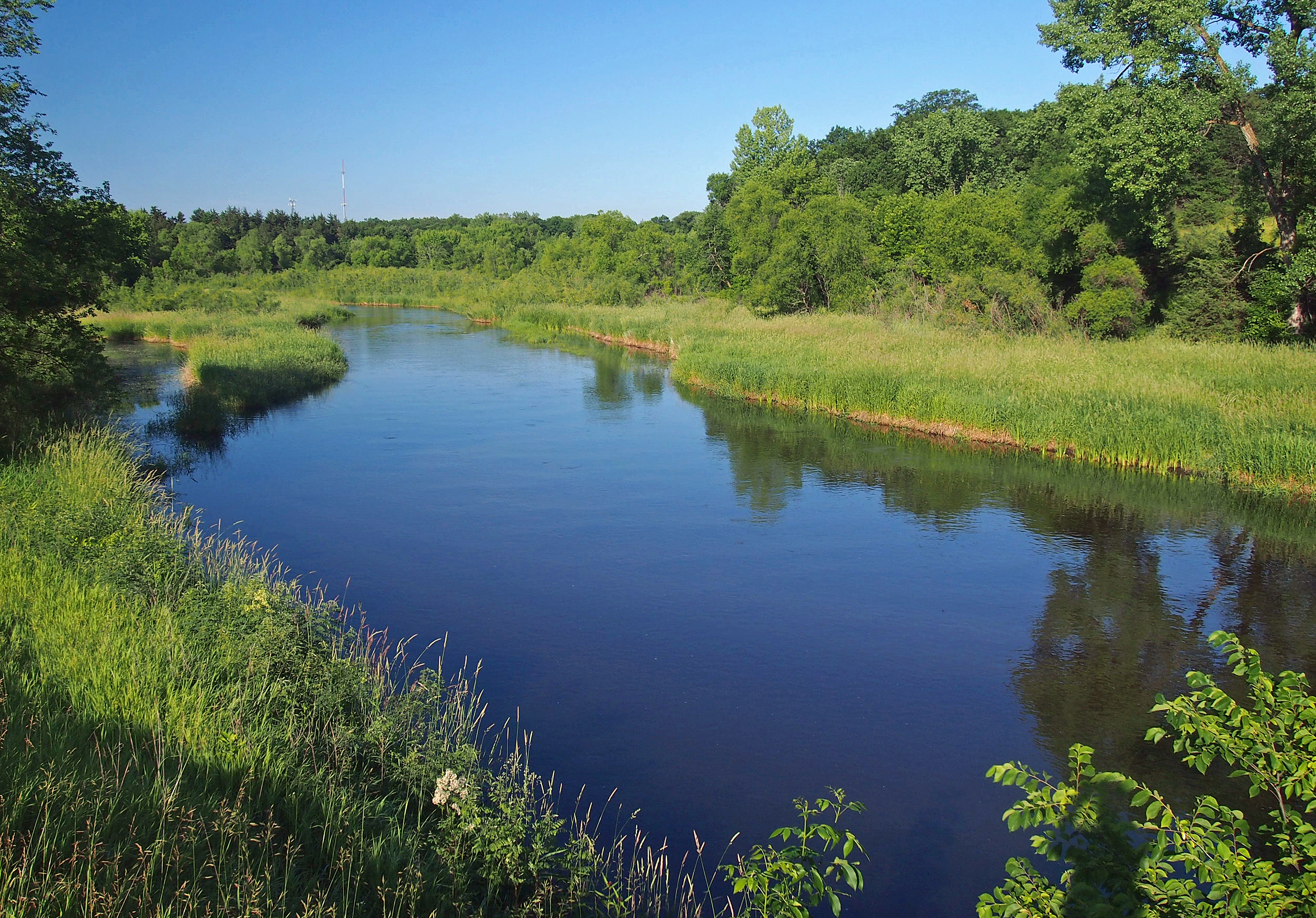 The Clearwater River in Clearwater, Minnesota, USA. View looking southwest from County Rd 75.